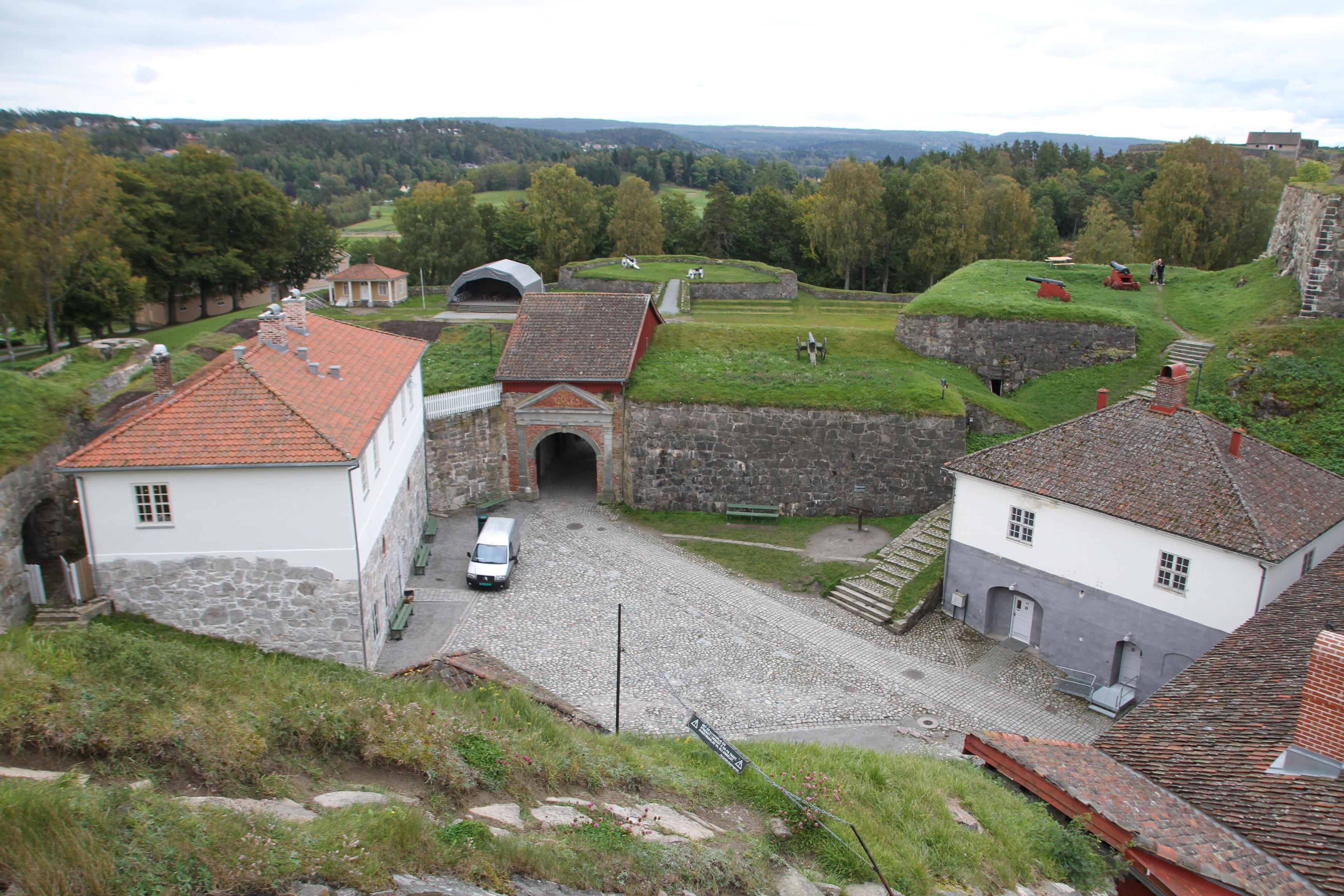 Central parts of the inner area, Fredriksten. Ravelinbygningen (to the left) - building from 1745 at Fredriksten fortress in Halden, Norway. The Ravelin gate in the middle and to the right building used as arrest and smithy.